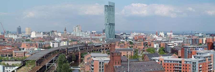 Image of the Skyline of Manchester.